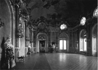 The Habsburg Hall in the Royal Castle of Budapest.